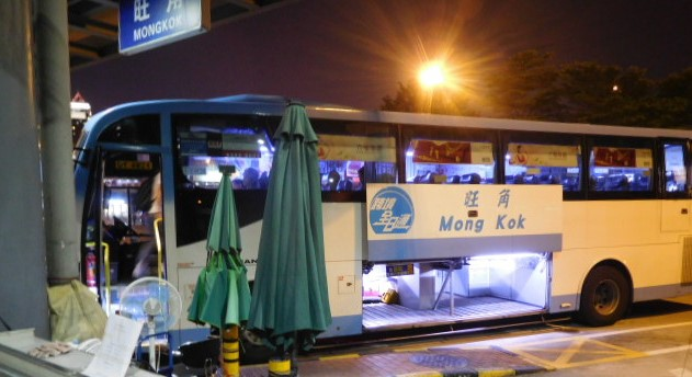 Bus Operated by All China Express at Huanggang Checkpoint in Shenzhen awaiting departure cross-border to Mong Kok in Hong Kong